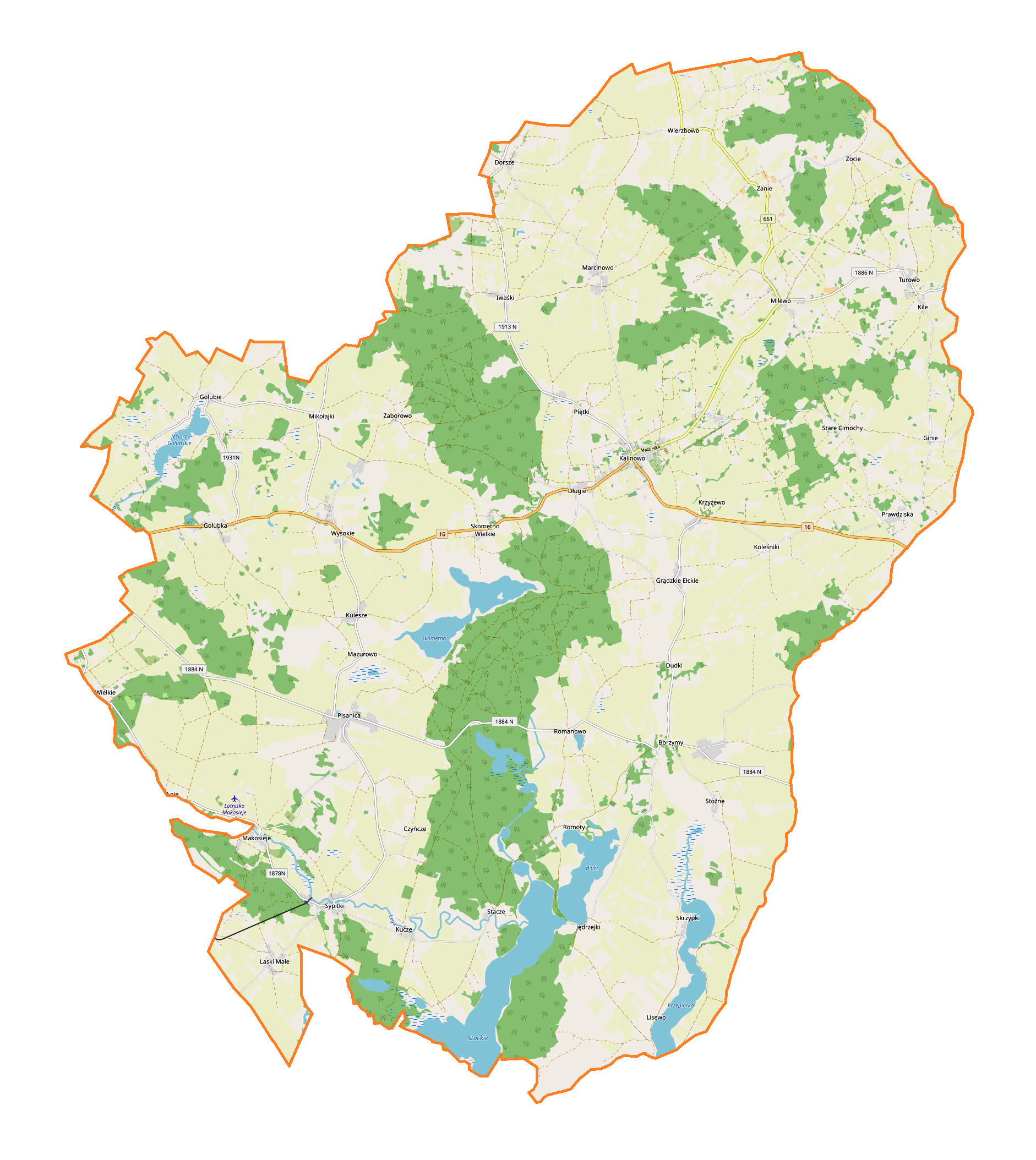 Location map